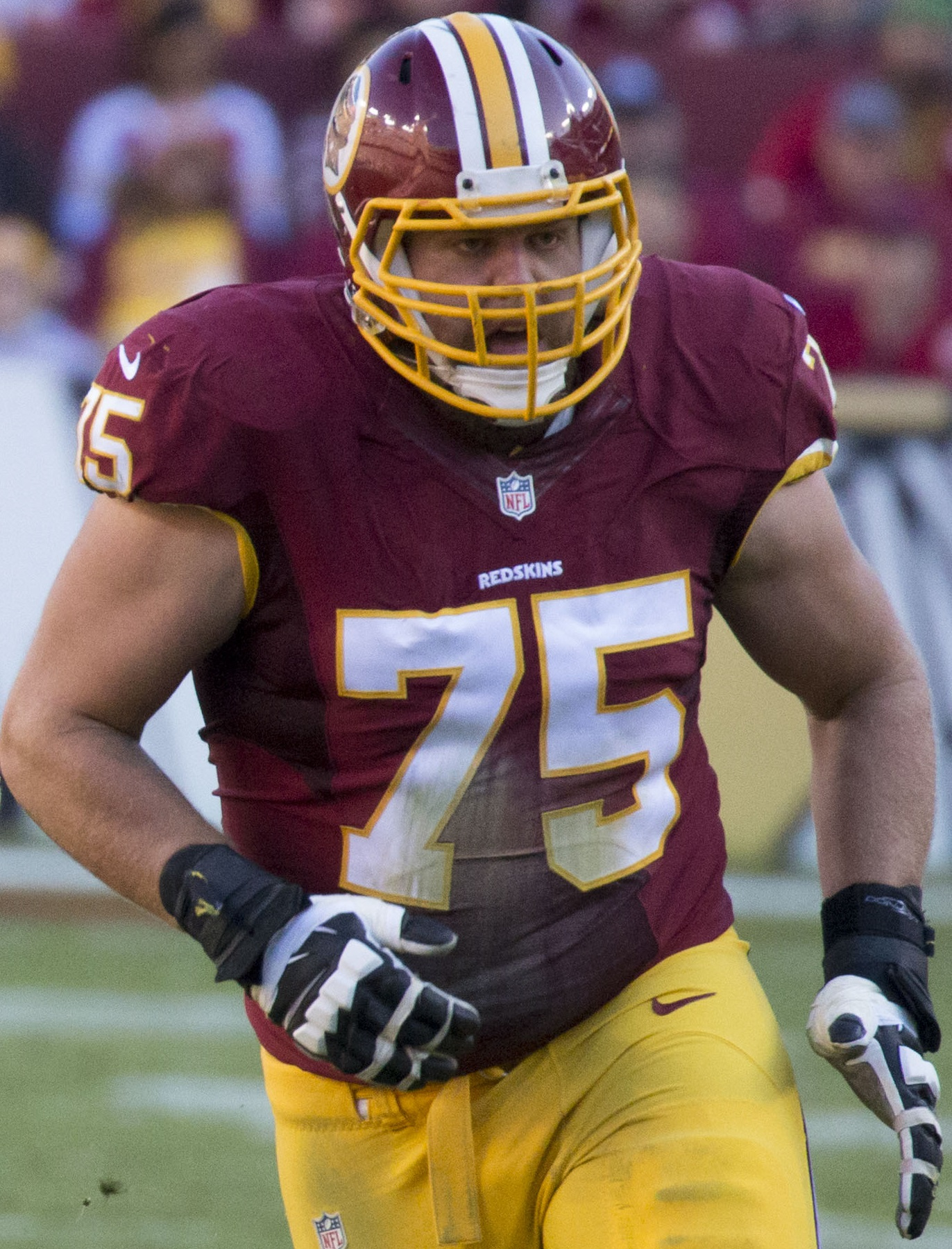 Saints at Redskins 11/15/15